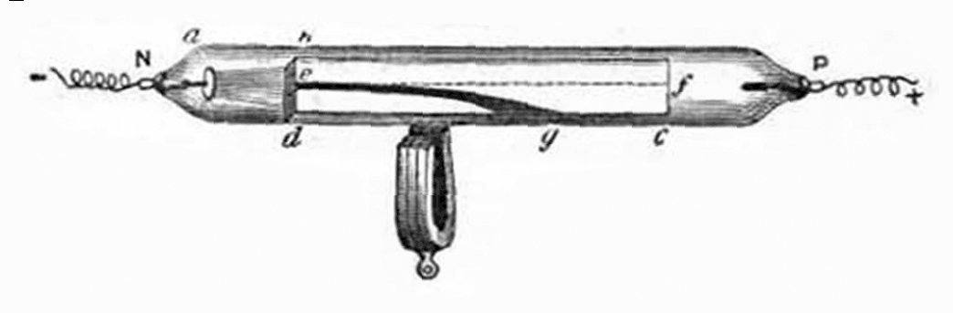 Drawing of a Crookes tube which demonstrated magnetic deflection of cathode rays, built by British physicist William Crookes around 1879. The tube was evacuated to a pressure of about 10-6 to 10-7 atmosphere. When a high DC voltage of several thousand volts or more was applied between the electrodes (N,P) in the tube, electrons (cathode rays) radiated from the negative terminal or cathode (N) on the left. The horizontal slit (e) in the metal divider (c,d) inside the tube allowed a thin beam to pass through. The horseshoe shaped magnet below the tube created a horizontal magnetic field in the center of the tube. When the electrons passed through it, the Lorentz force of the magnetic field on the moving electrons bent the beam (g) downward. When the magnet was removed, the electrons continued in a straight path (f) down the tube. The electrons themselves were invisible, but the divider was painted with a chemical, such as zinc sulfide, which fluoresced when struck by the electrons, which made the path of the beam visible. This experiment, which proved that cathode rays obeyed Faraday's law like electric currents in wires, was important in establishing that cathode rays, that is electrons, were the particles responsible for electricity.